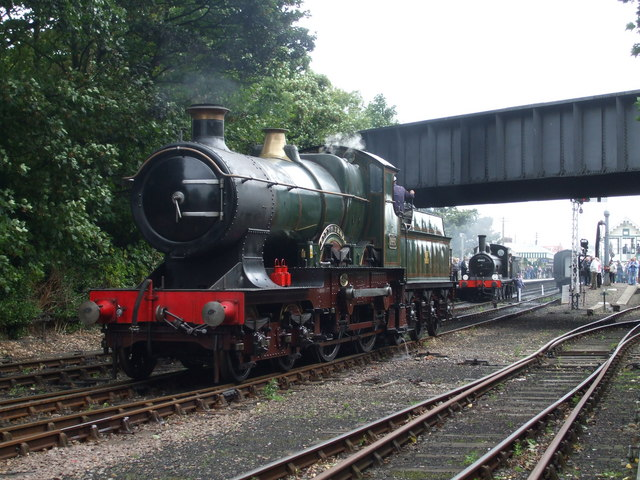 GWR 3440 City of Truro backing into the station